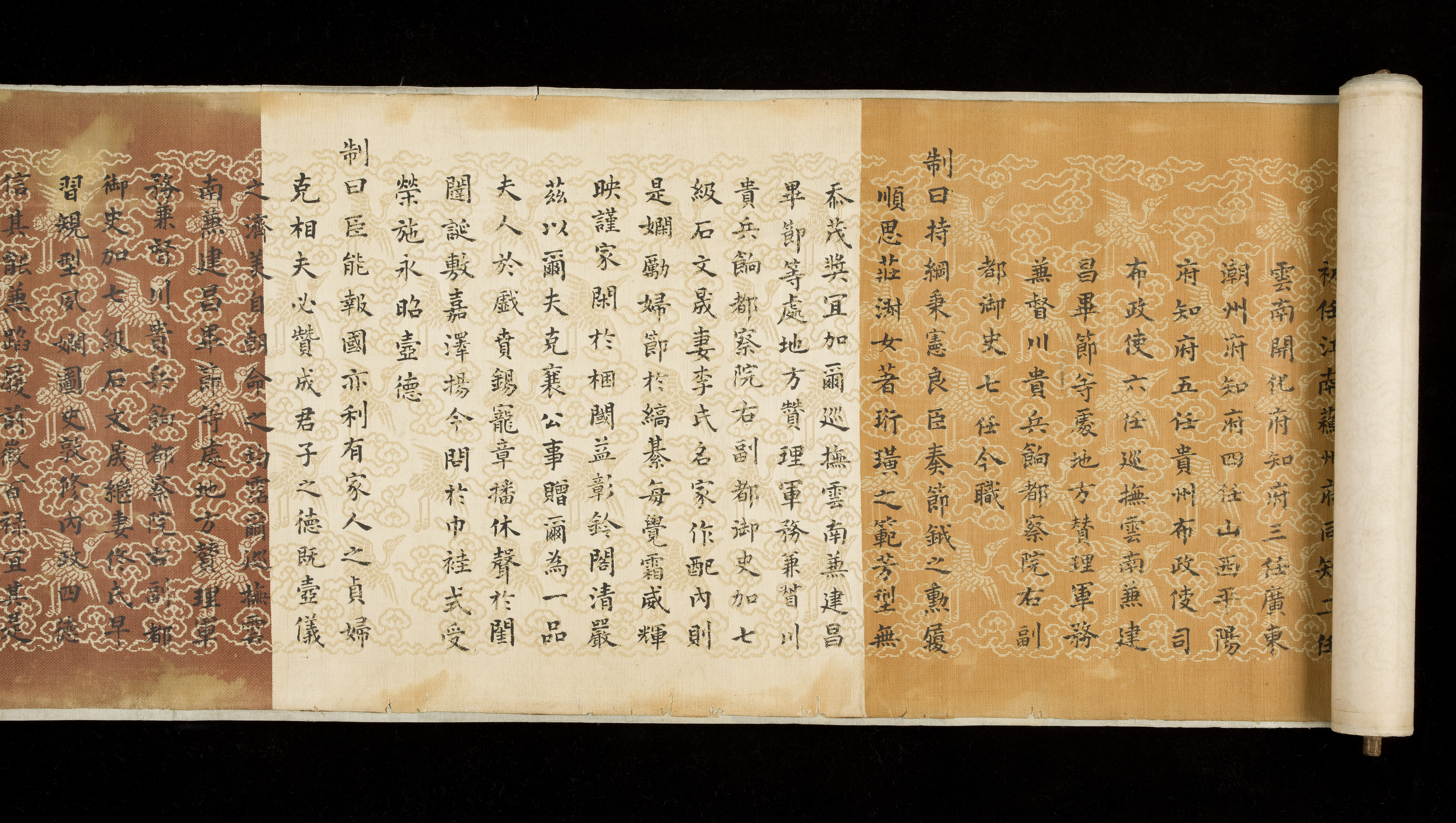 Wellcome Chinese Collection 197 Asian Collection